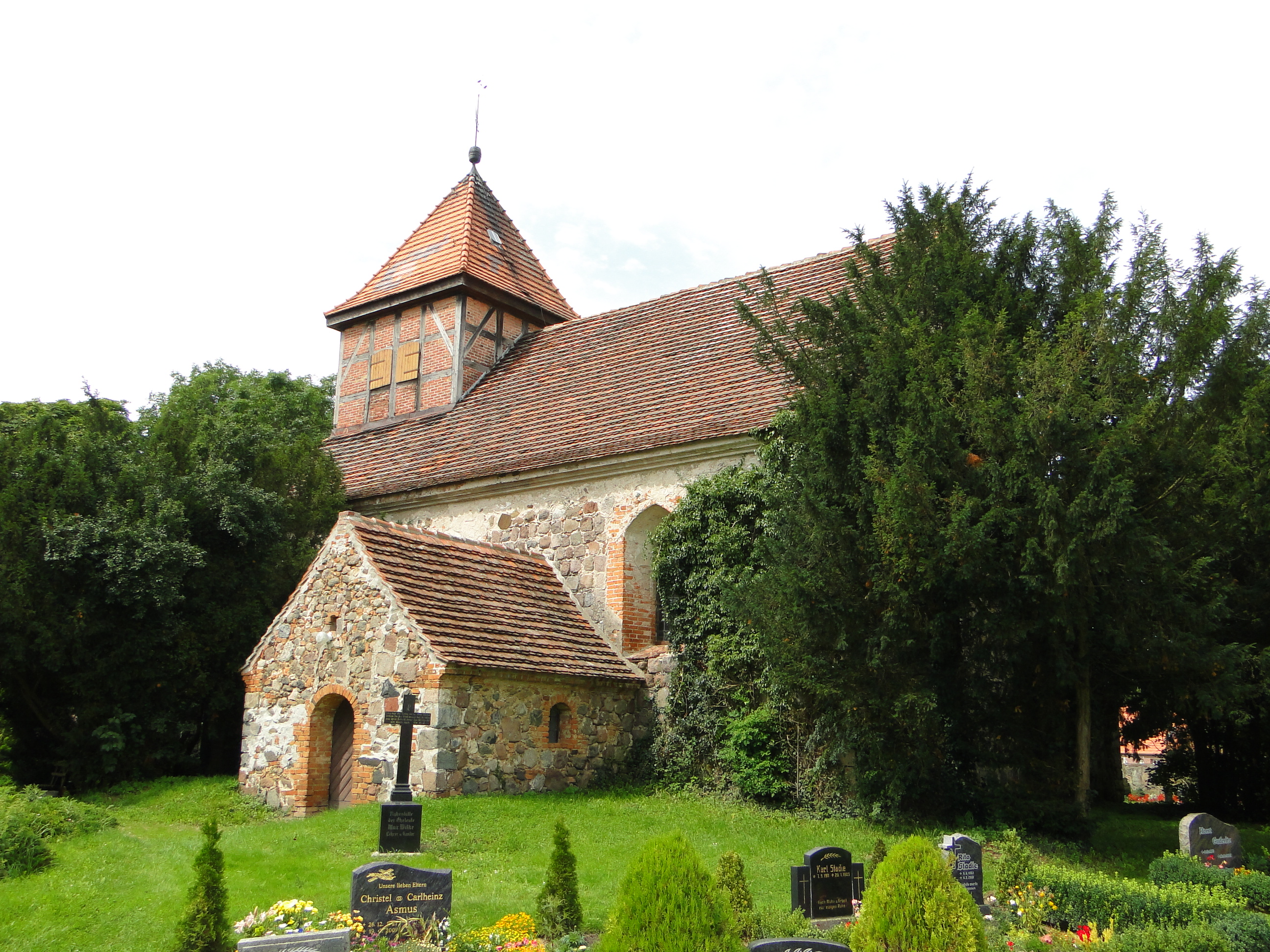 Church in Jatzke, district Mecklenburg-Strelitz, Mecklenburg-Vorpommern, Germany: Early Gothic building of Boulders; brick probably as late as 1772